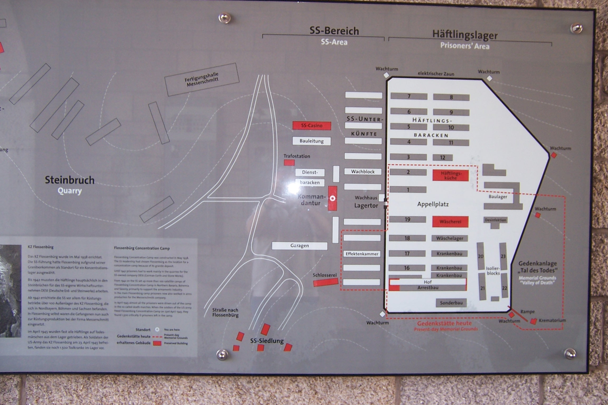 Plan of Flossenbürg Concentration Camp on interpretative sign on site